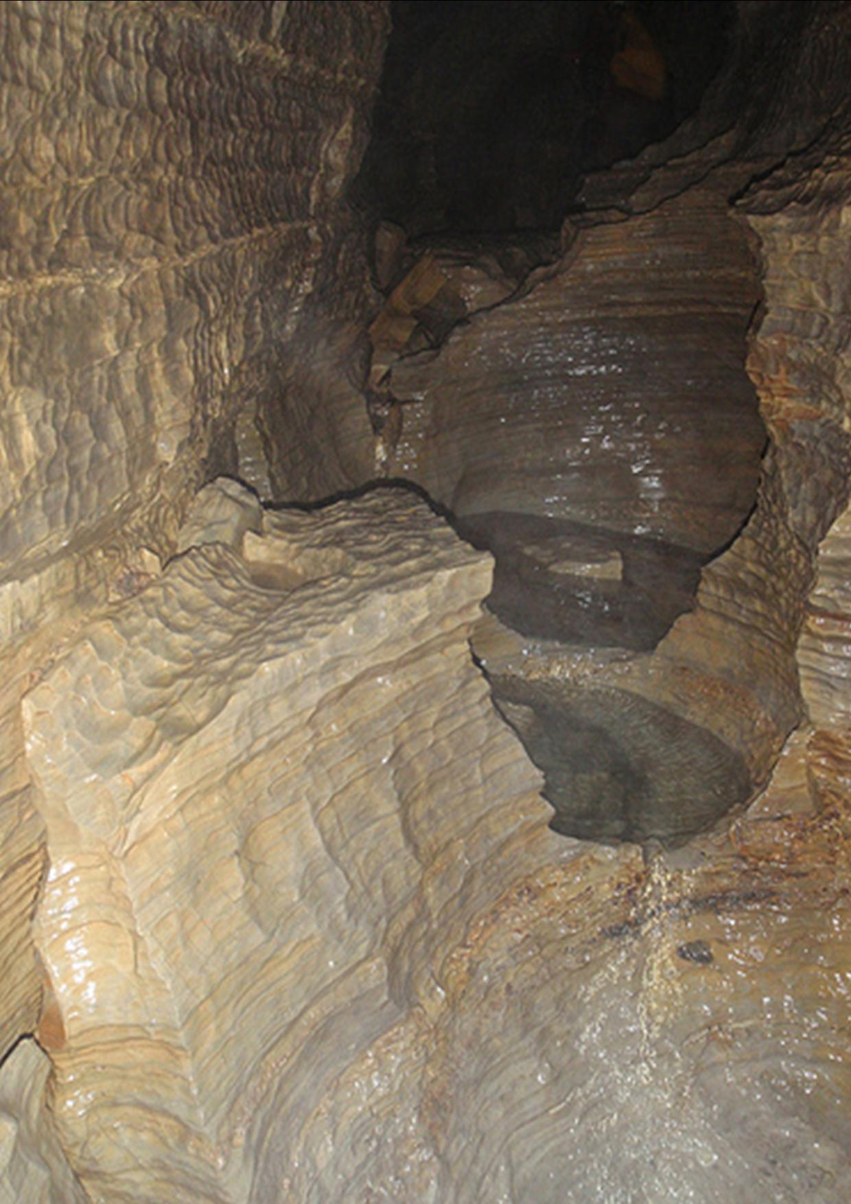 Entrance to the Cuves de Sassenge (Sassenage?), a part of the Vercors cave system